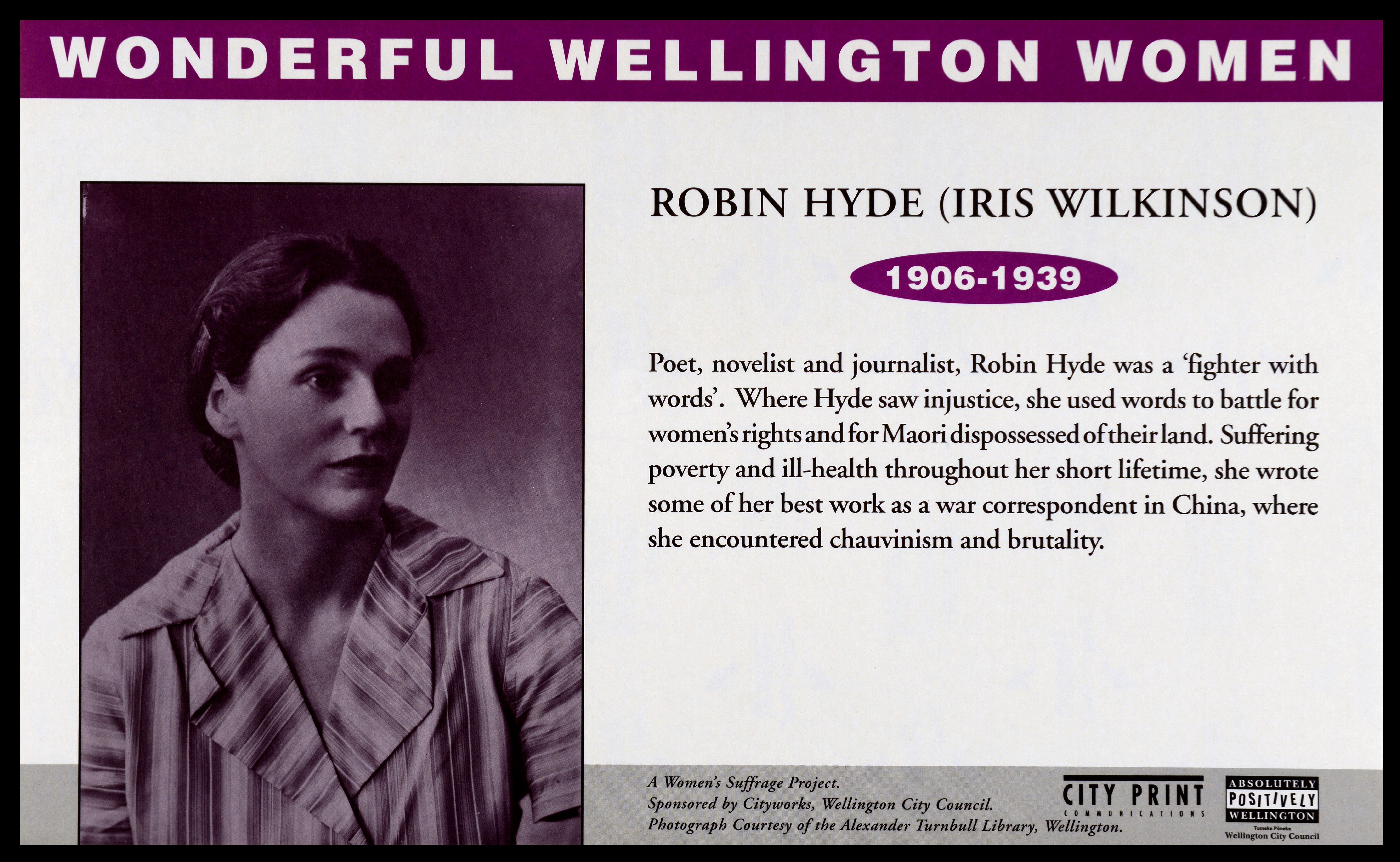 Robin Hyde (1906-39) is remembered as one of New Zealand’s most significant writers. A poet, novelist and journalist, she is best known today for her novels Passport to hell, Nor the years condemn and The godwits fly. Born Iris Wilkinson, she came to New Zealand from South Africa as a baby. Her life was full of tragedy, and she was found dead in London on 23 August 1939, aged just 33 years old. She had committed suicide by Benzedrine poisoning. The image above is from a series of 1993 Suffrage Centennial Year Trust posters. The posters were created to support an exhibition on 'Wonderful Wellington Women' - a collaboration between the Ministry of Women's Affairs and Wellington City Council. Katherine Mansfield, Lady Miria Pomare, Rita Angus and Mother Mary Aubert also feature in the series. Archives reference: ABKH 7365 W4437/98 NF317 (R17048556) For updates on our On This Day series and news from Archives New Zealand, follow us on Twitter Material supplied by Archives New Zealand